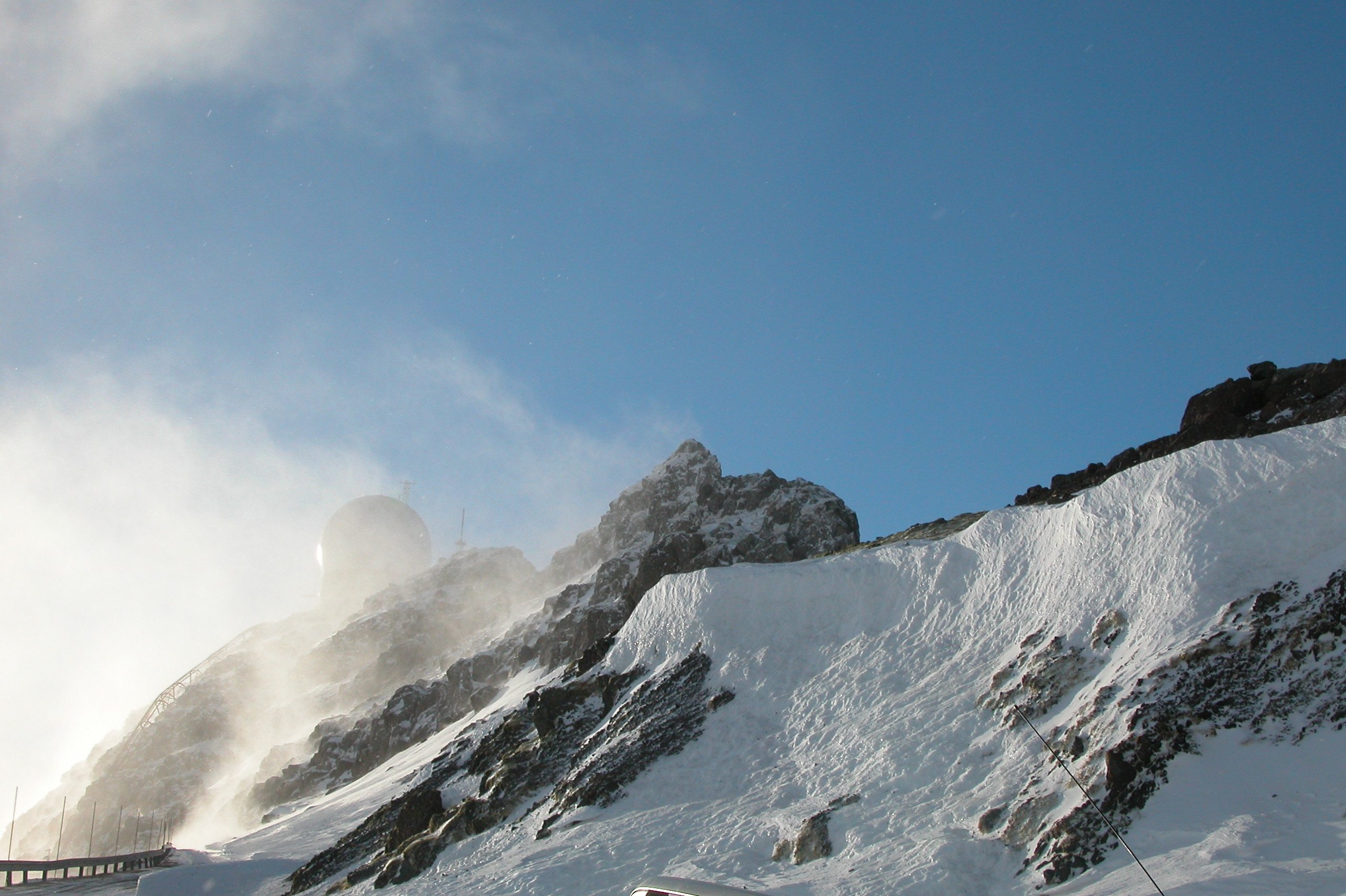 Radar base of the NATO at Sornfelli on Streymoy, Faroe Islands. View on Koltur